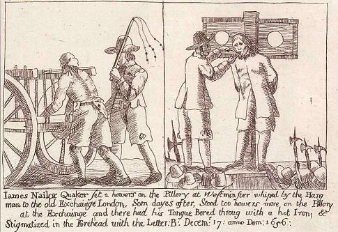 Quaker James Nayler (1618–1660) being the pilloried